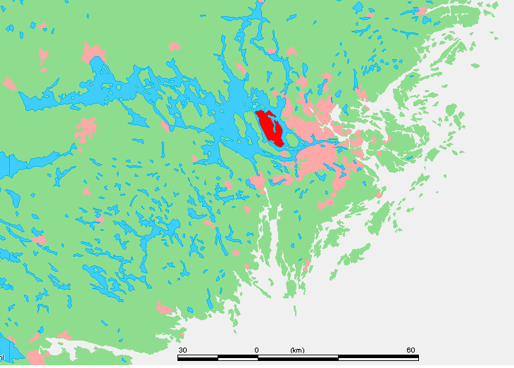 Island of Sweden - Faringso.PNG